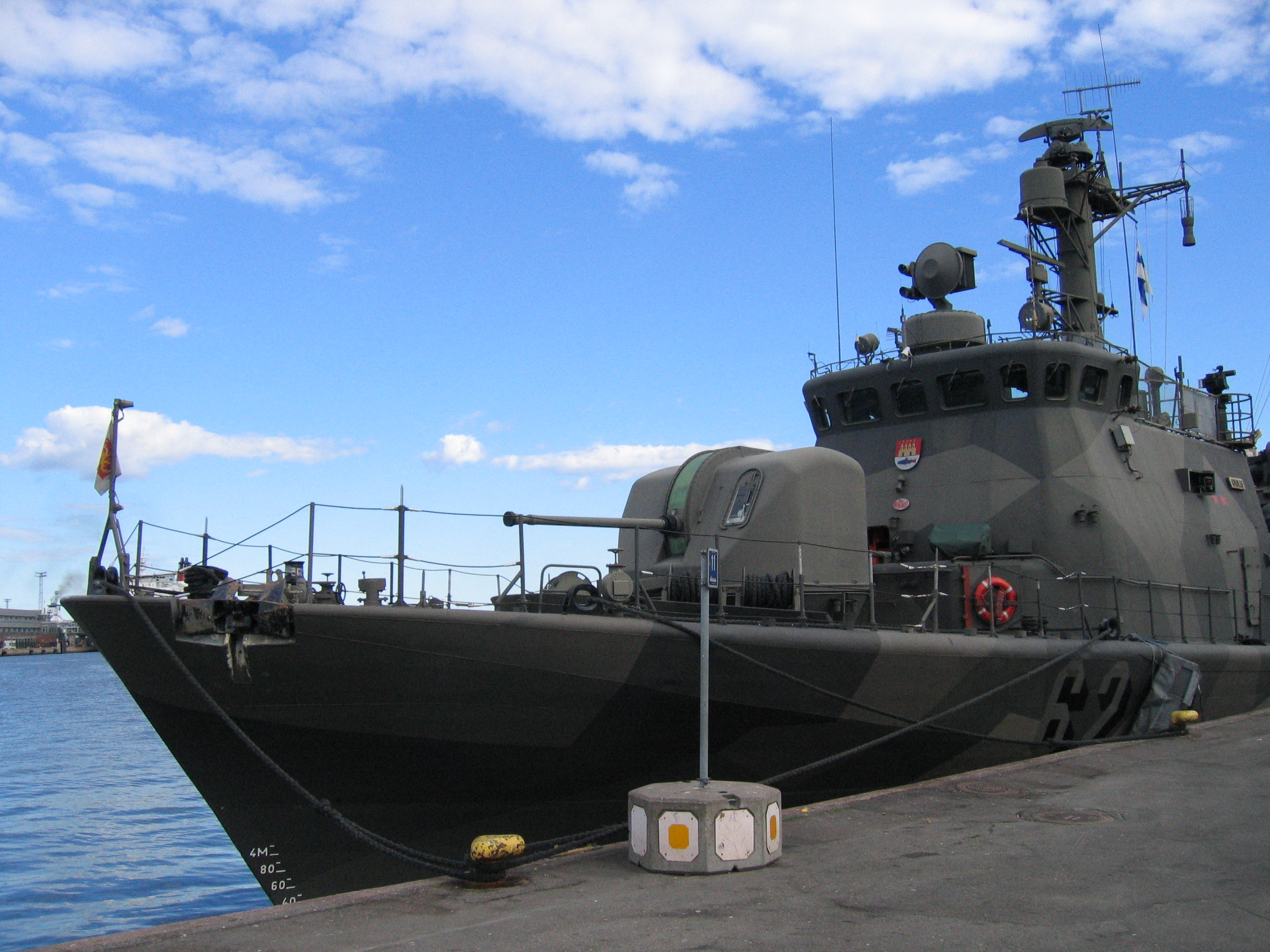 Helsinki class fast attack craft Oulu of the Finnish Navy in the Port of Helsinki. Now commissioned in Croatian Navy.